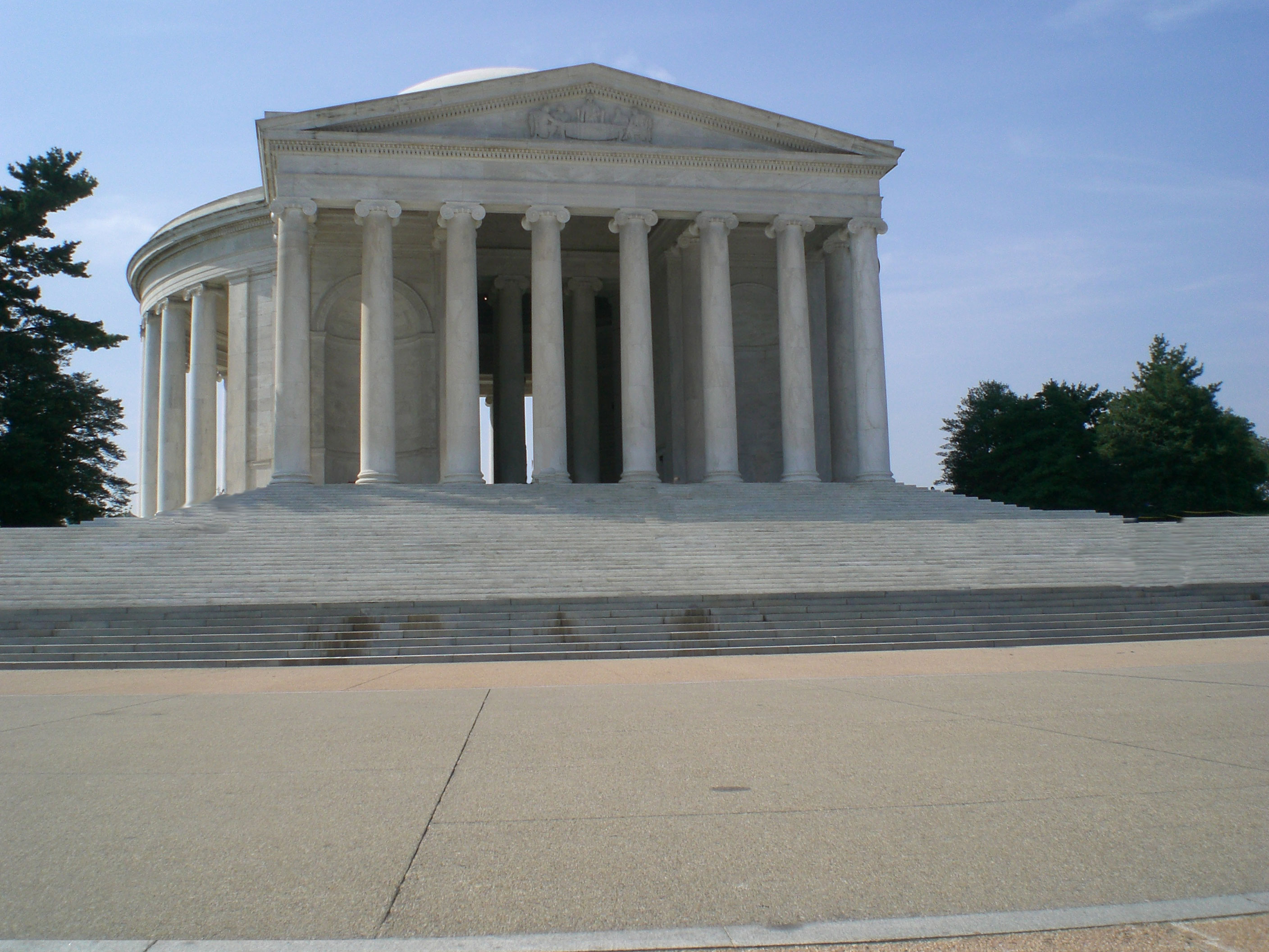 The Jefferson Memorial